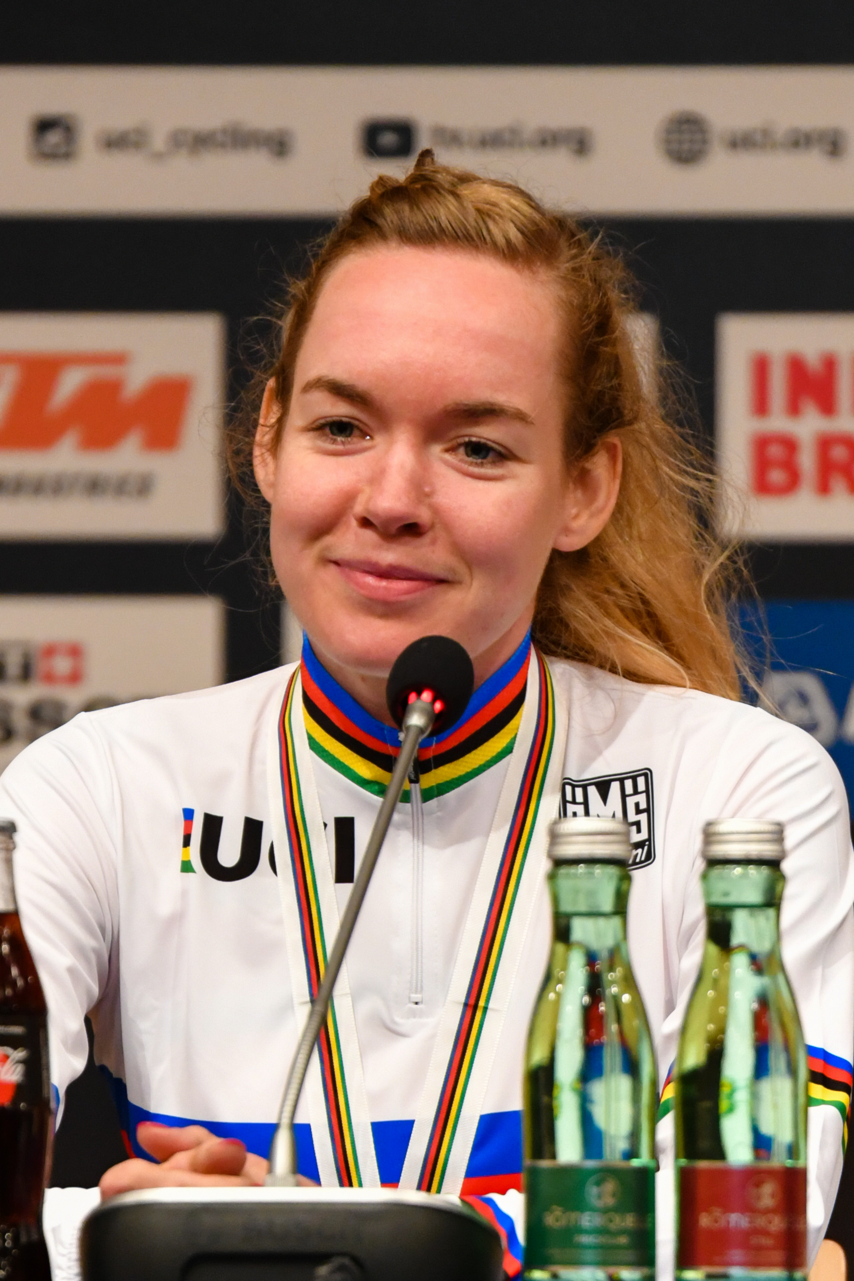 2018 UCI Road World Championships Innsbruck/Tirol Women Elite Road Race. Picture shows: Press conference, Anna van der Breggen of the Netherlands